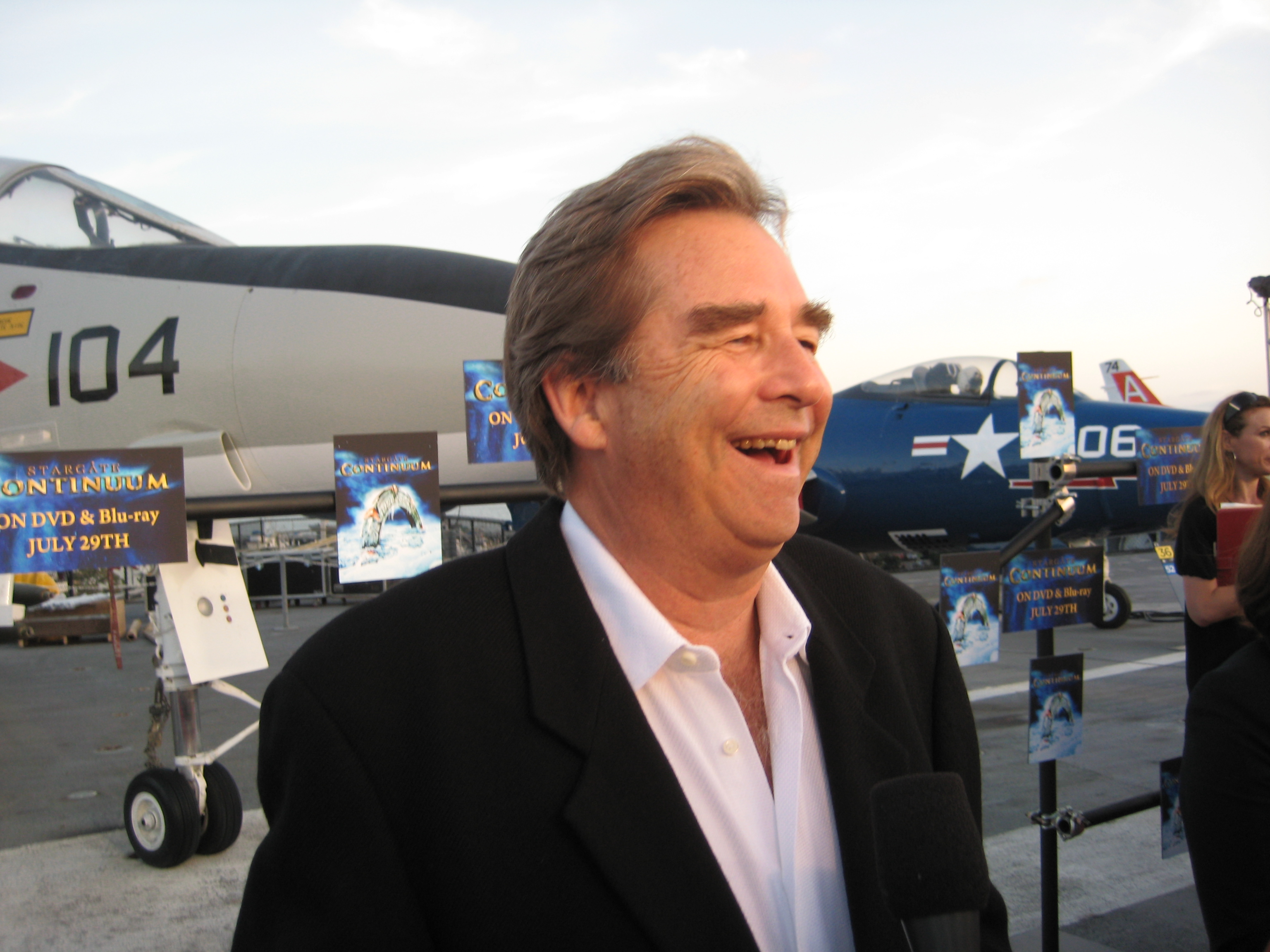 Beau Bridges on the flight deck of the USS Midway Aircraft Museum on a red carpet event to publicize Stargate: Continuum. Photograph by Patty Mooney, Crystal Pyramid Productions